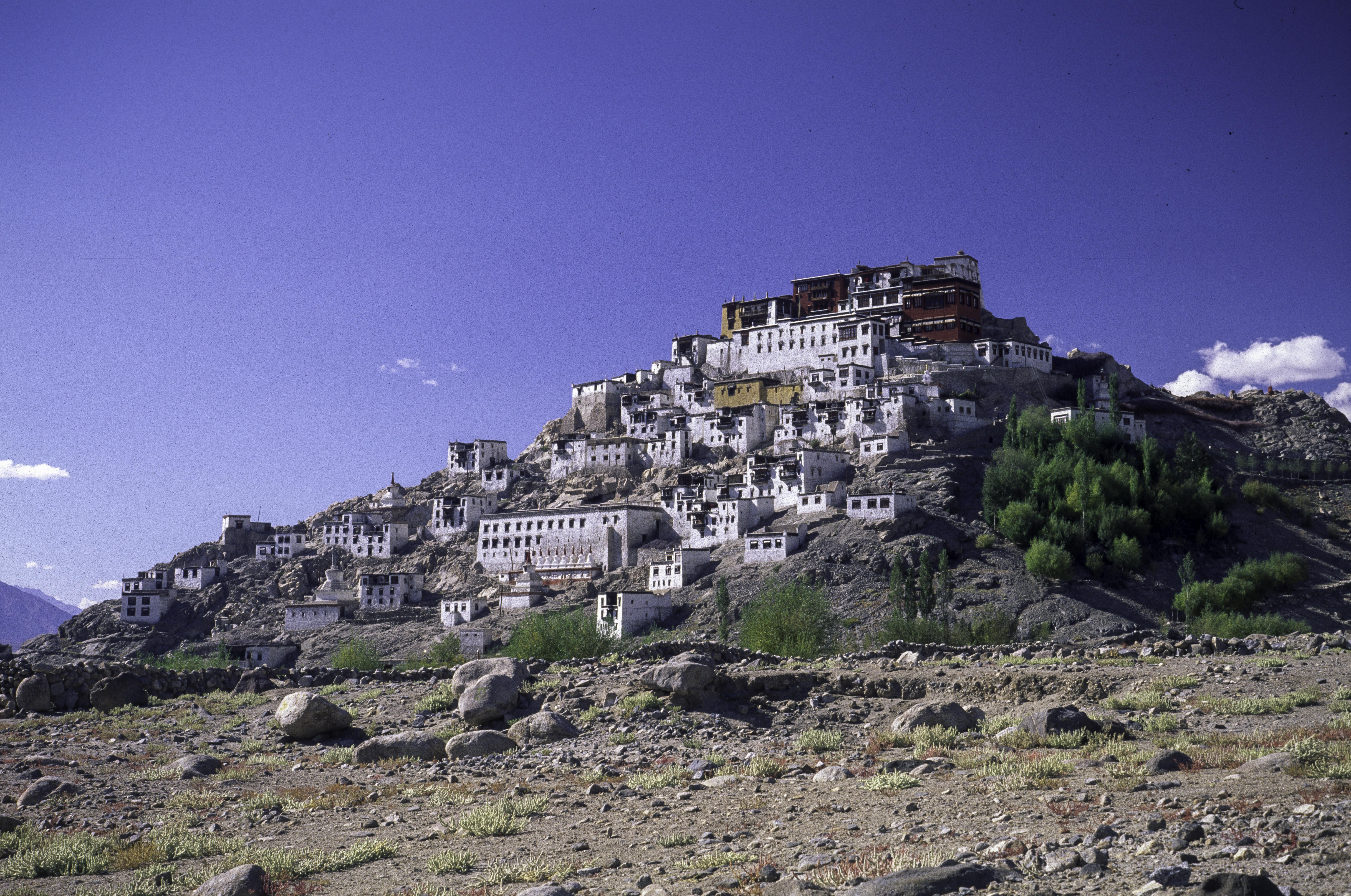 A view of the Thiksey Monastery in Ladakh, India. Uploaded to wiki by user:nikkul Author: snotch on flickr